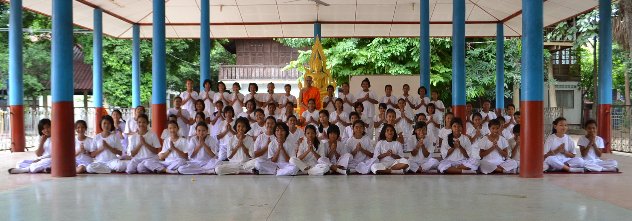 student in Wat Kungtaphao Buddhist School in Wat Kungtaphao, Khung Taphao subdistrict, Mueang Uttaradit, Uttaradit Province, Thailand.